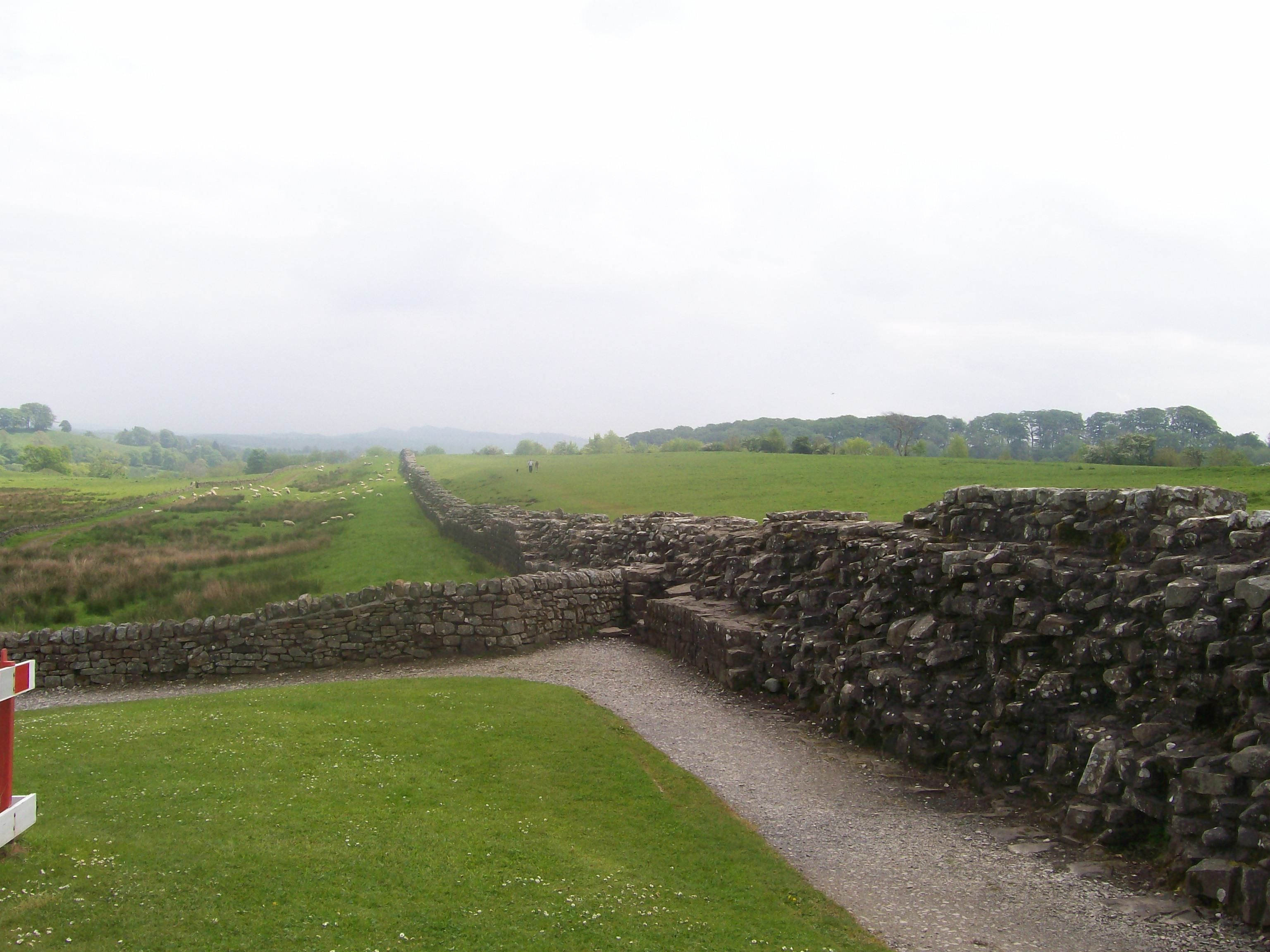 Hadrian's Wall near Birdoswald, Northumberland, England. See Banna_(Birdoswald).